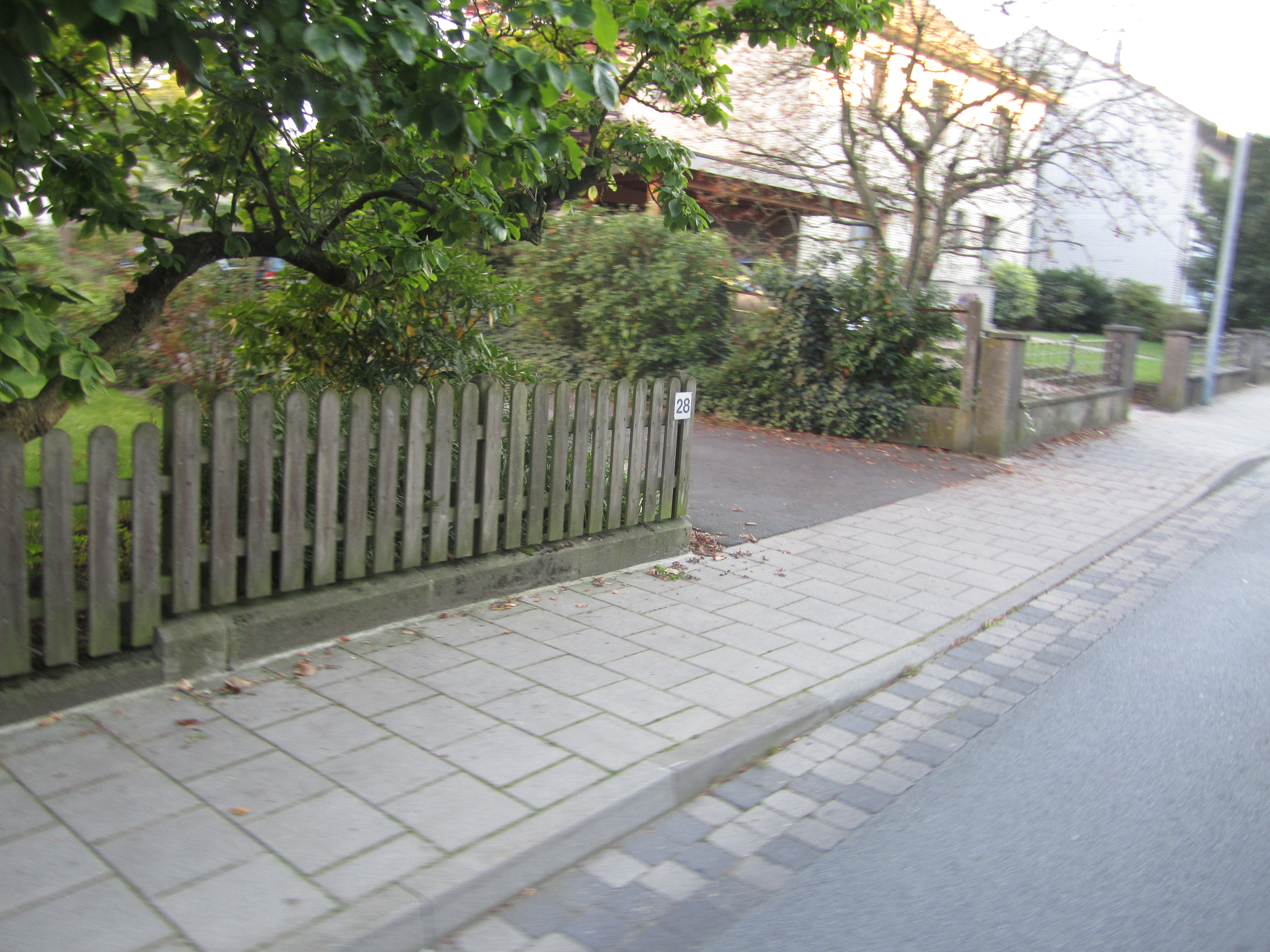 in Bünde, District of Herford, North Rhine-Westphalia, Germany.